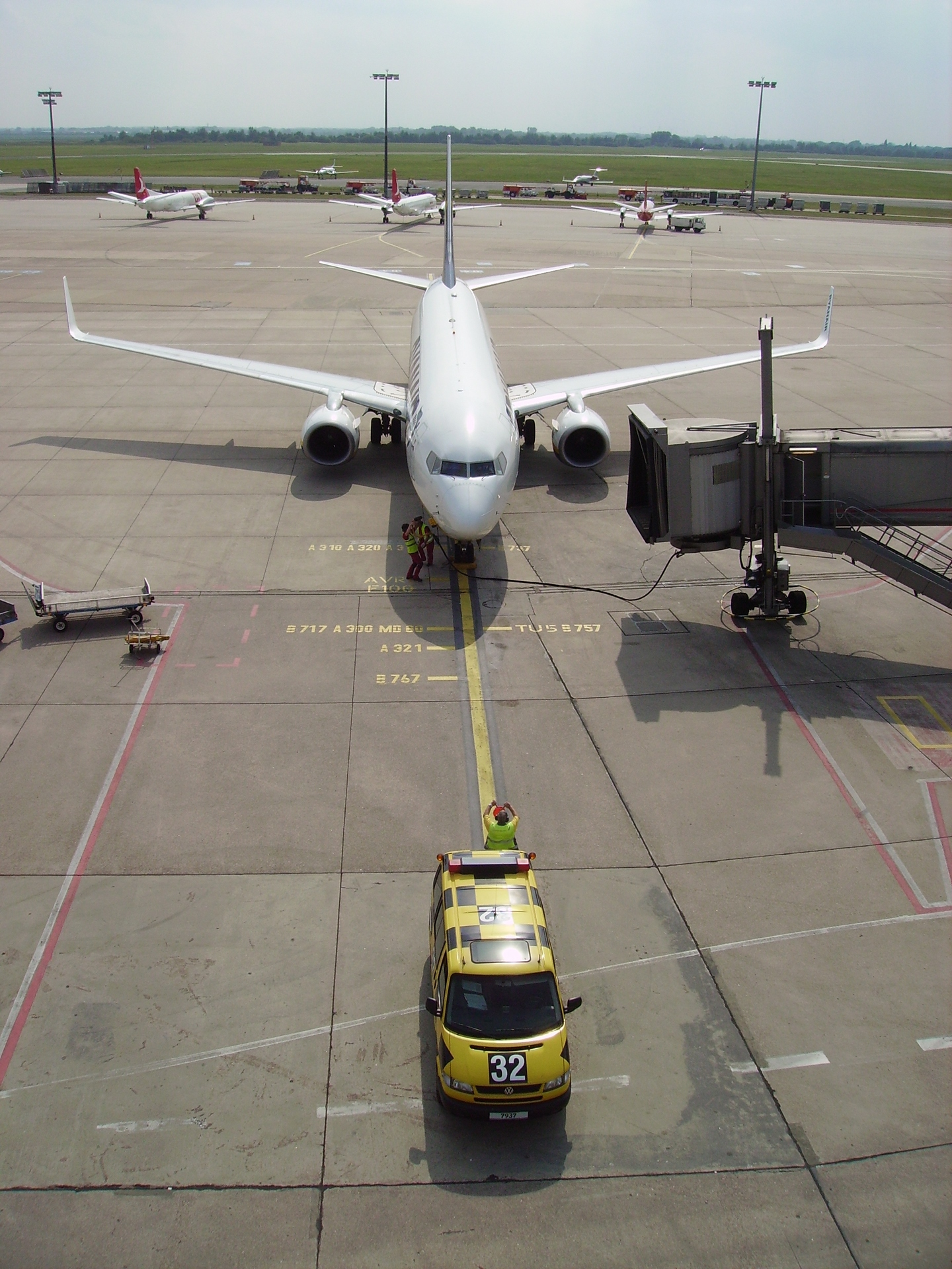 A Ryanair Boeing 737 has just arrived at the airport of Bremen